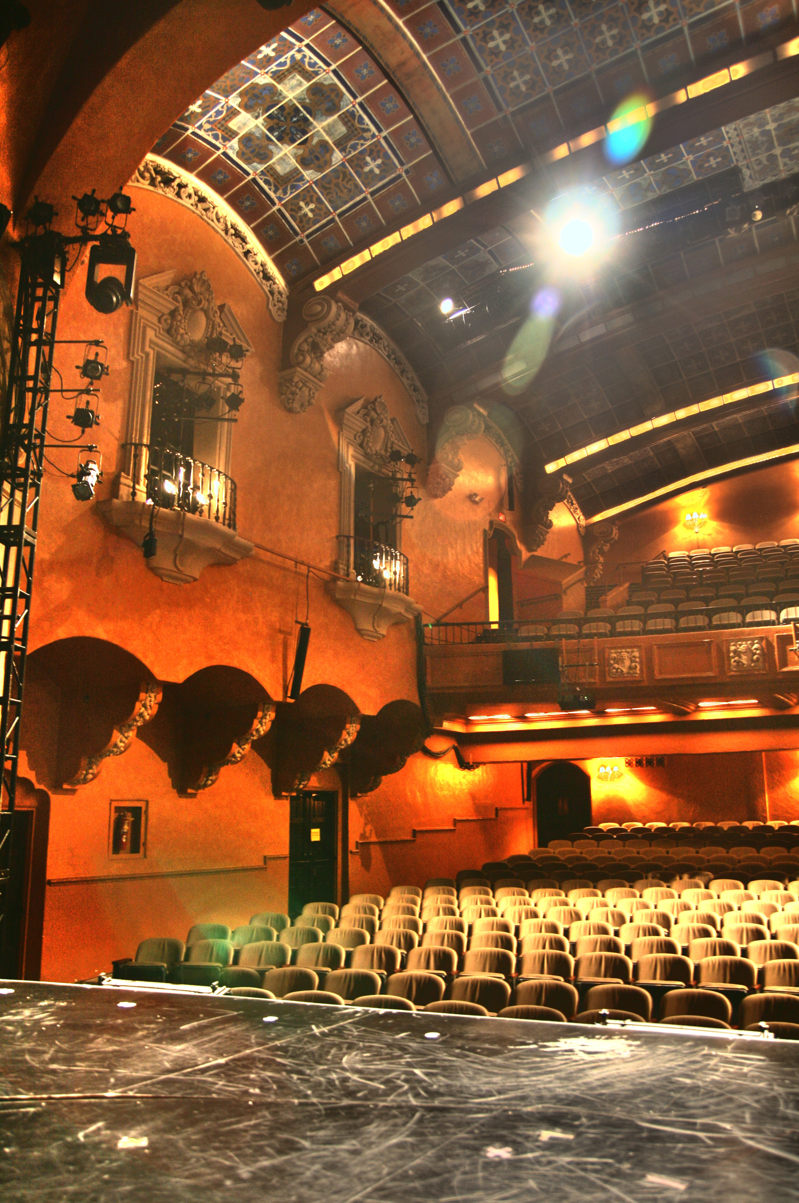 A view of a section of seating in the Pasadena Playhouse, a historic building in Pasadena, California.